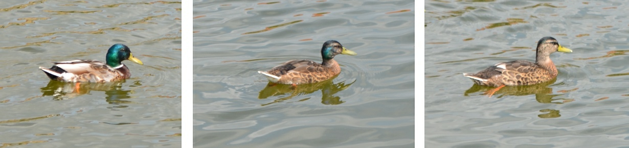 Mallard male getting gradually eclipse plumage durring summer moulting period.